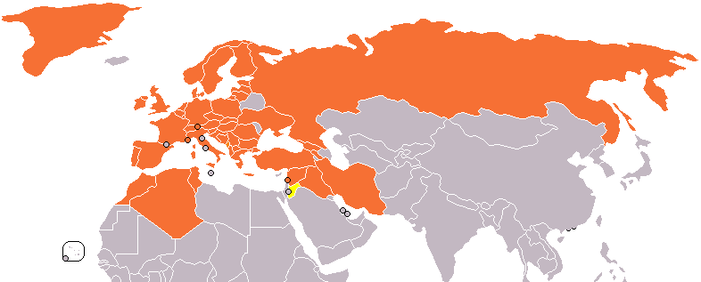 OTIF member states